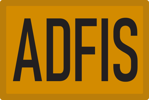 Standard Identification Arm Patch of the Australian Defence Force Investigative Service for wear with barracks/garrison uniform.